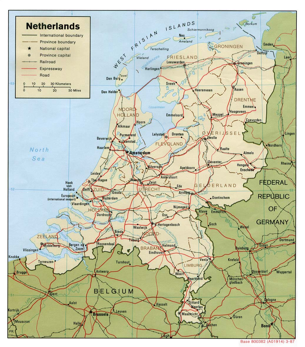 Map of the Netherlands.